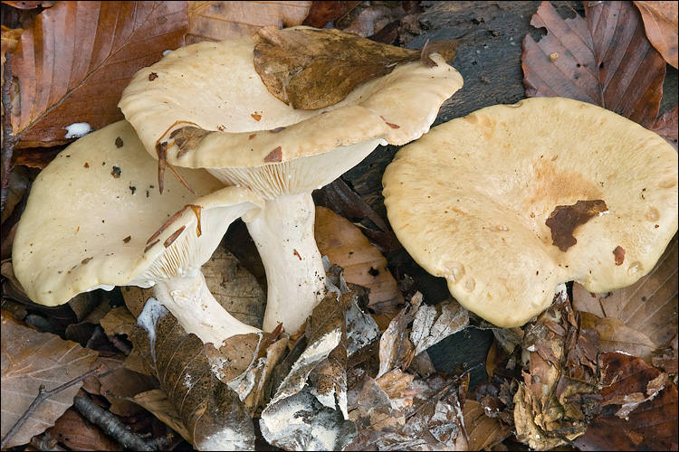 Fruit bodies of the milk mushroom Lactarius pallidus (Persoon: Fries) Fries. Specimens photographed in Učja Valley, East Julian Alps, Posočje, Slovenia.